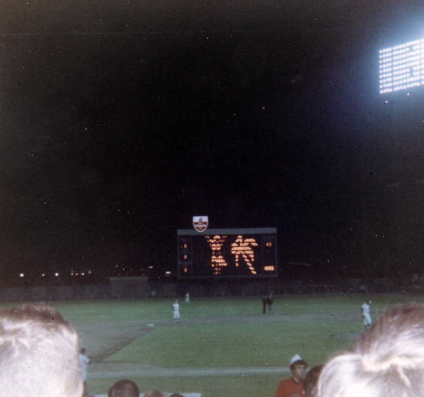 Jarry Park Stadium during a Montreal Expos game, 1969